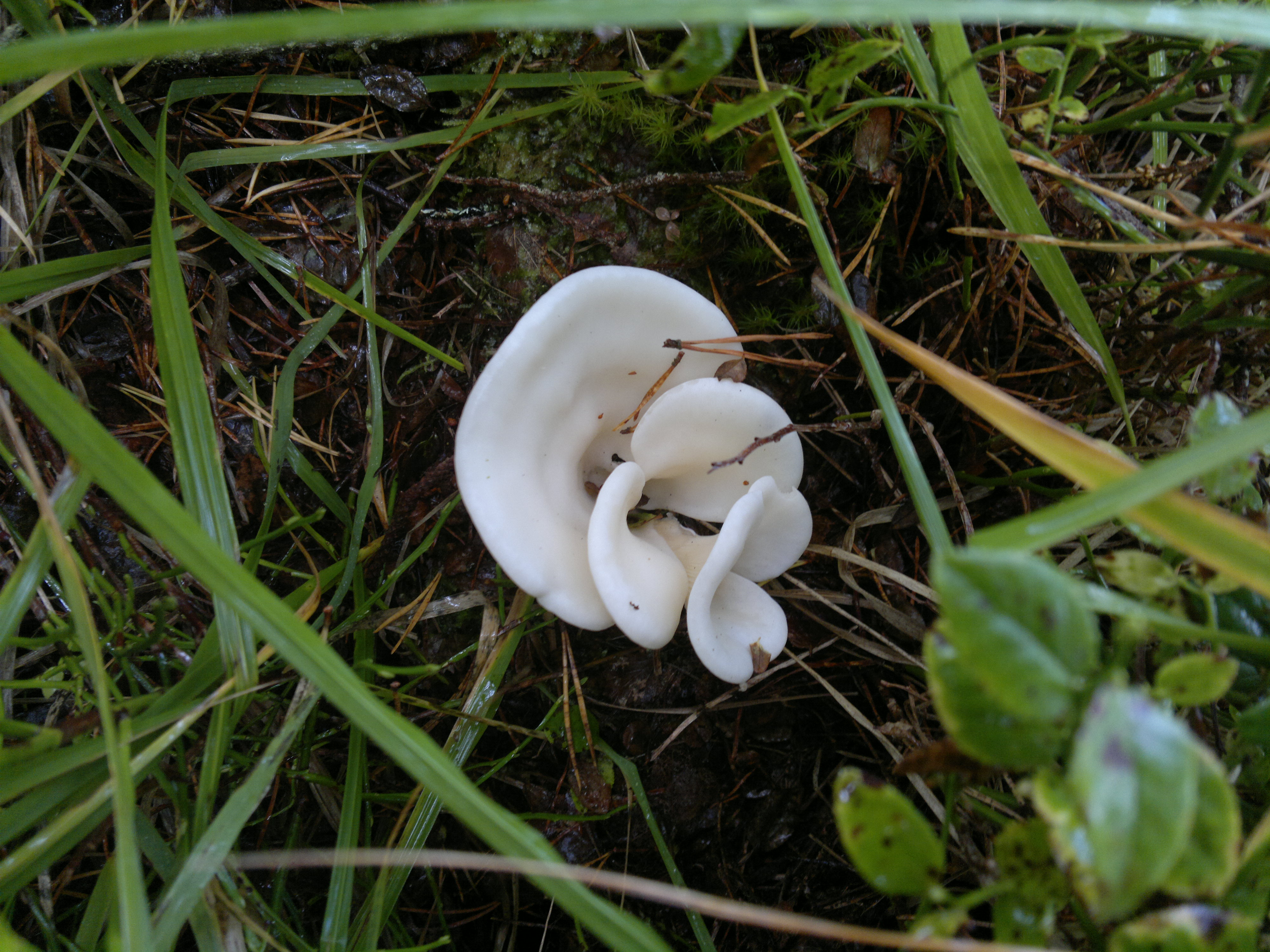 Photo of an angel wings mushroom, taken September 2011 in Trees for Life's Dundreggan Estate. For use in Pleurocybella_porrigens